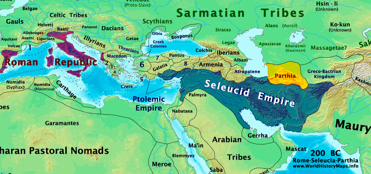 Roman, Seleucid, and Parthian Empires in 200 BC